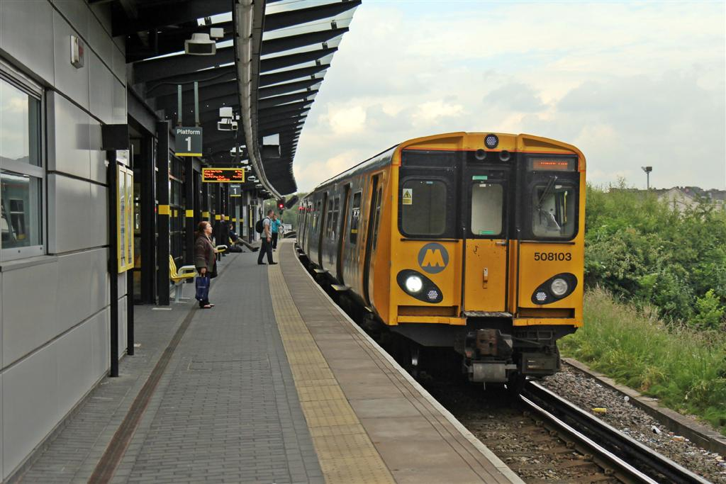 Arriving at Sandhills Railway Station